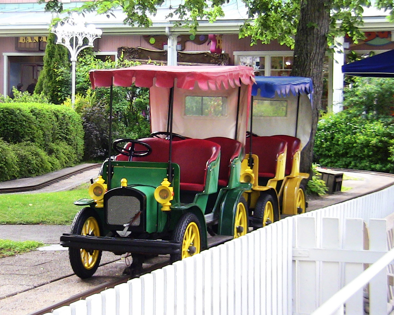 The ride "Farfars bil" at Liseberg, Gothenburg, Sweden, june 5th 2012.